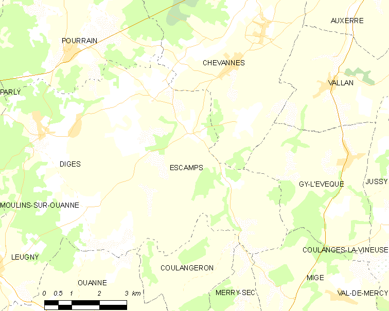 Map of French municipality Escamps